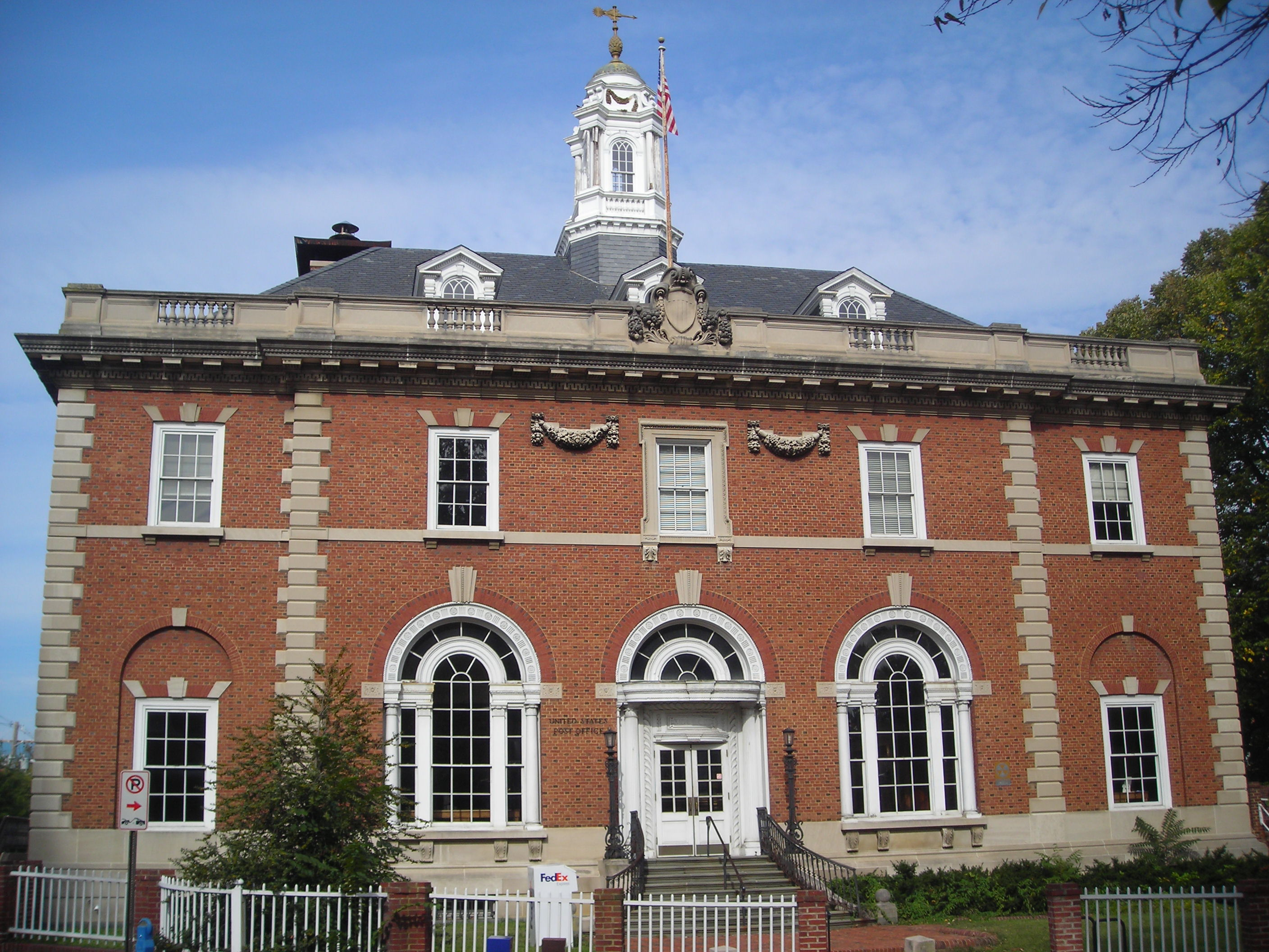 Annapolis Post Office - 1 CHURCH CIR ANNAPOLIS, MD 21401-9998